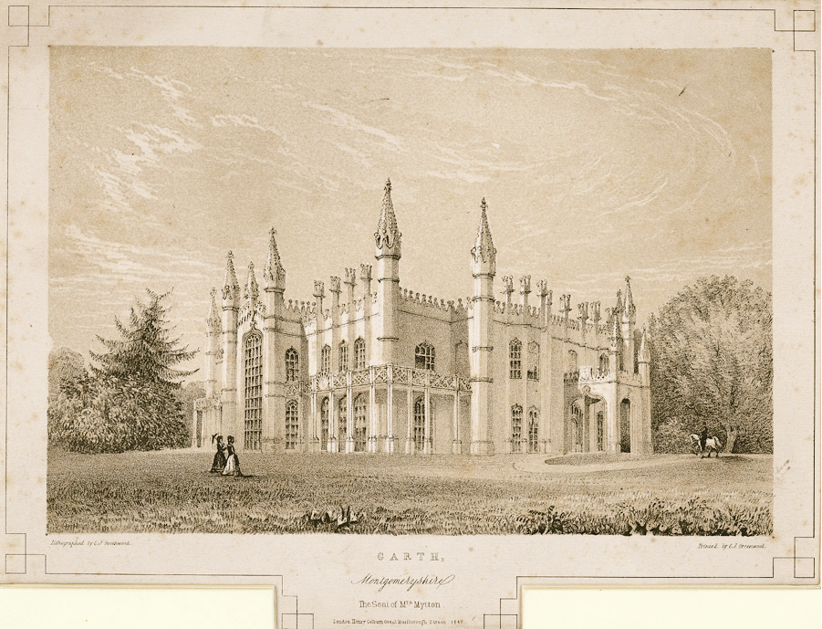 Garth, Guilsfield. Lithograhic pint of Garth, by C. J. Greenwood. Published by Henry Colborn 1847